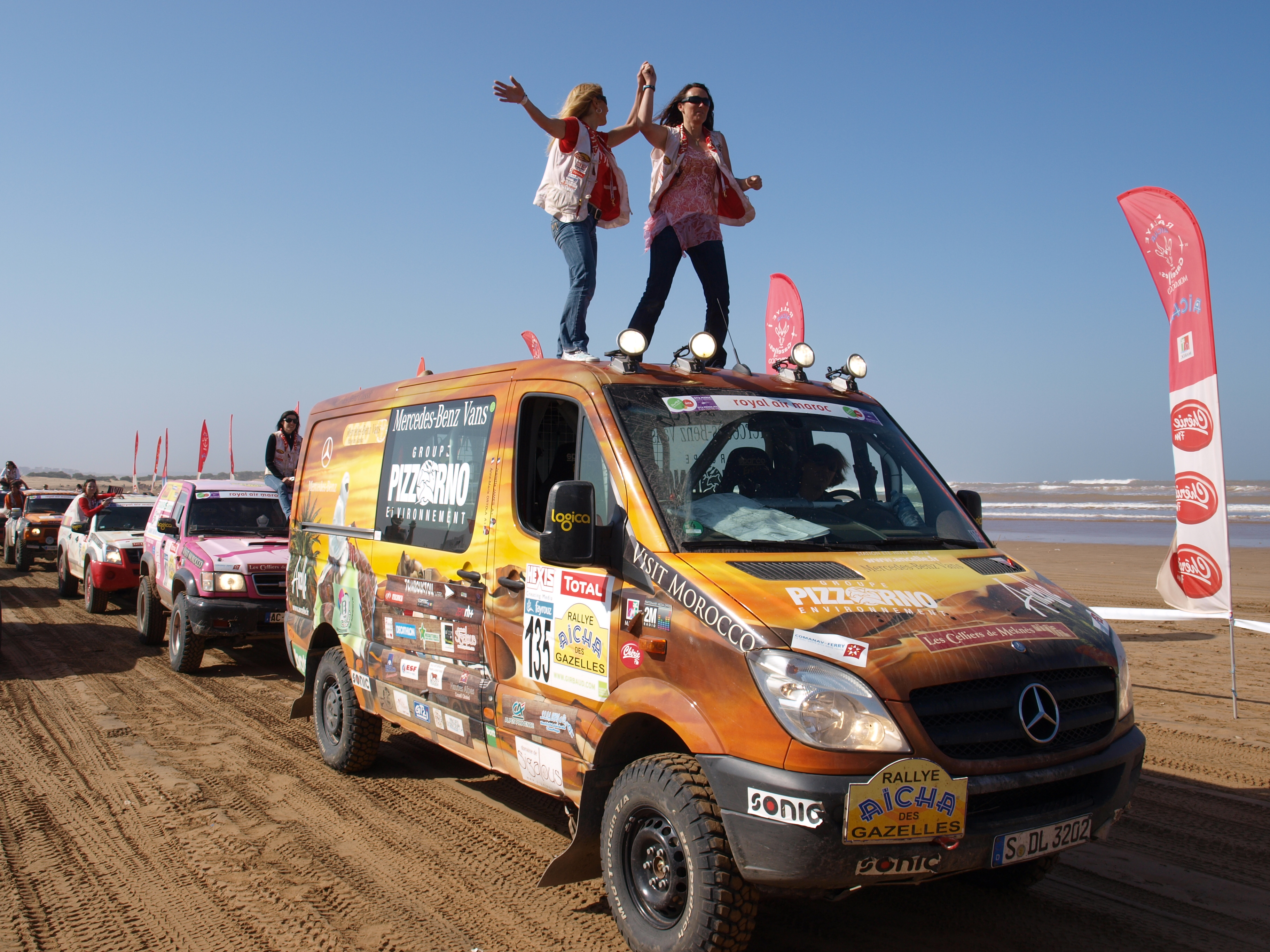 2010 Team 135 (Jeanette James/Anne-Marie Ortola) at the finish line in Essaouira